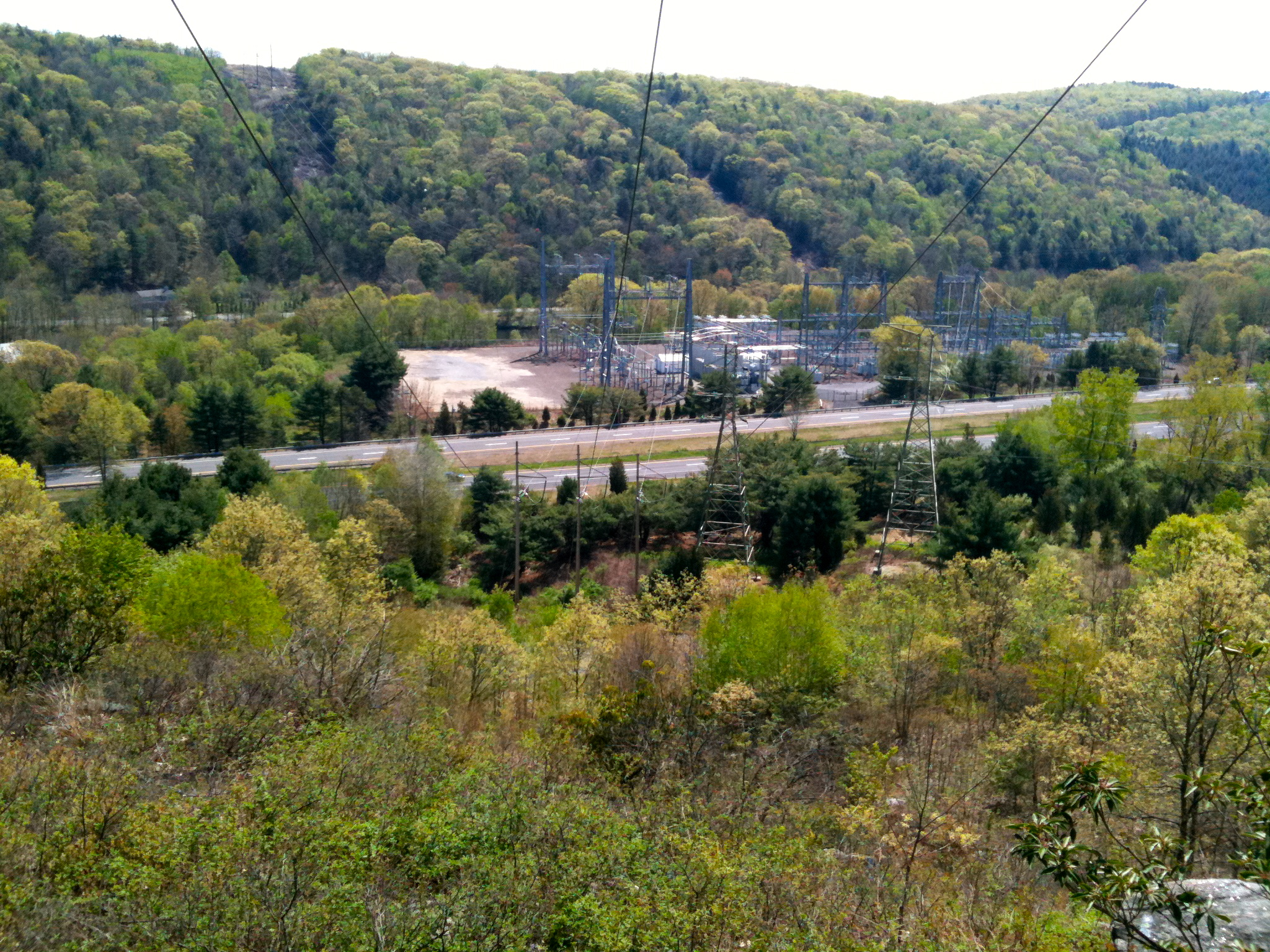 Jericho Blue-Blazed Trail. Power plant and lines as well as Whitestone Cliffs section of Mattatuck State Forest across CT-8 at Jericho-Whitestone Connector Trail intersection with CT-262.